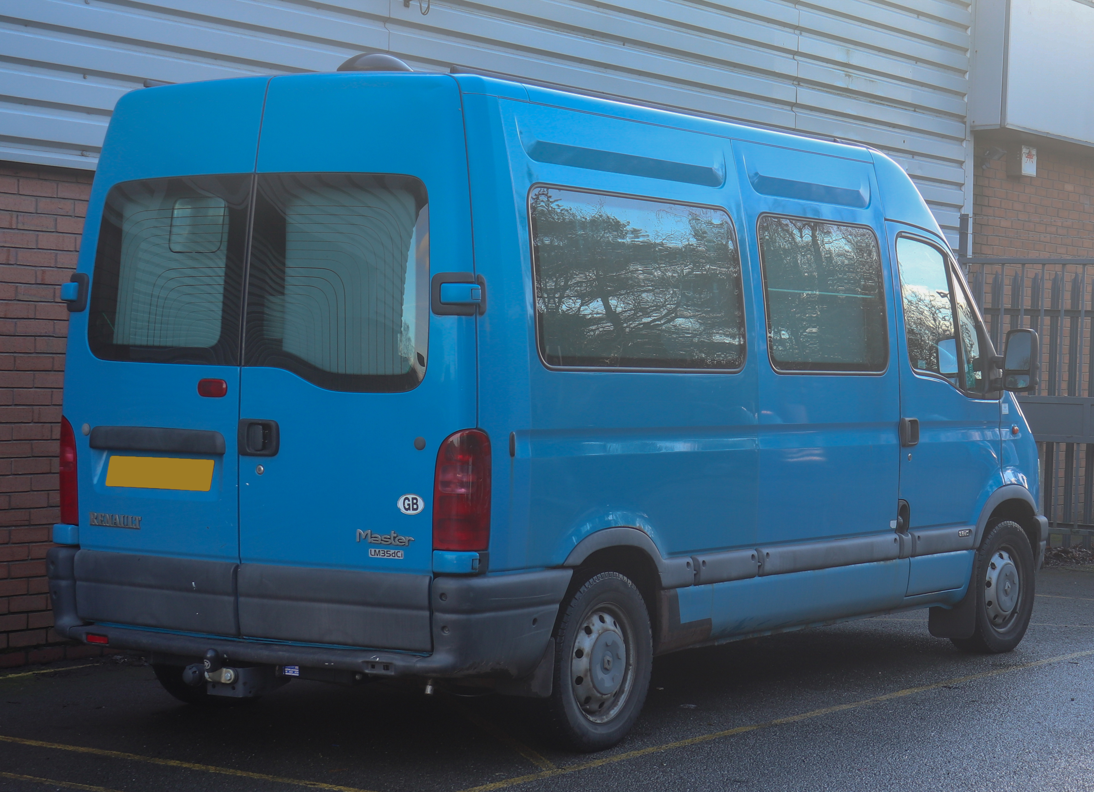 2001 Renault Master MM33 DCi 2.2 Rear Taken in Warwick